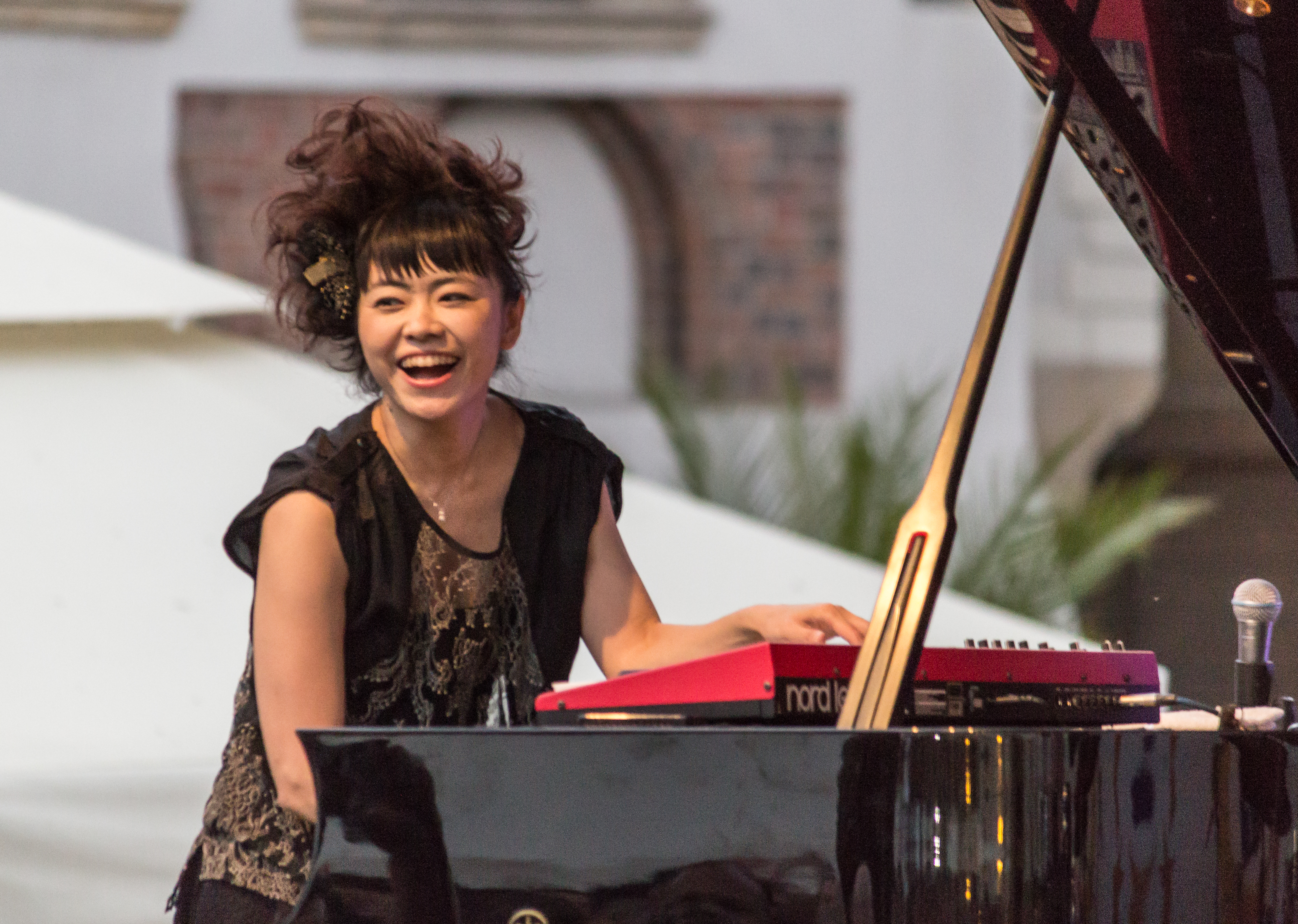 Hiromi Uehara during Jazz na Starowce festival in Warsaw, 2013-07-20.